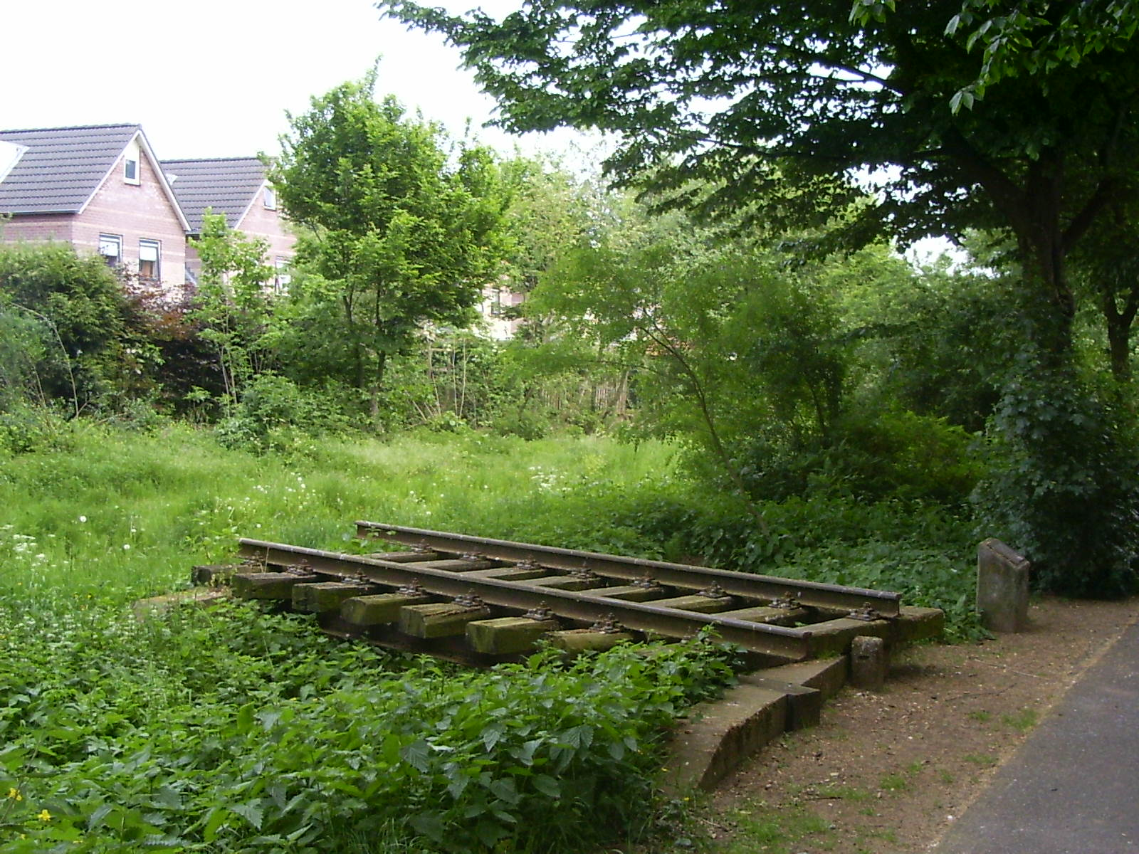 Dinxperlo, railway monument from the south west